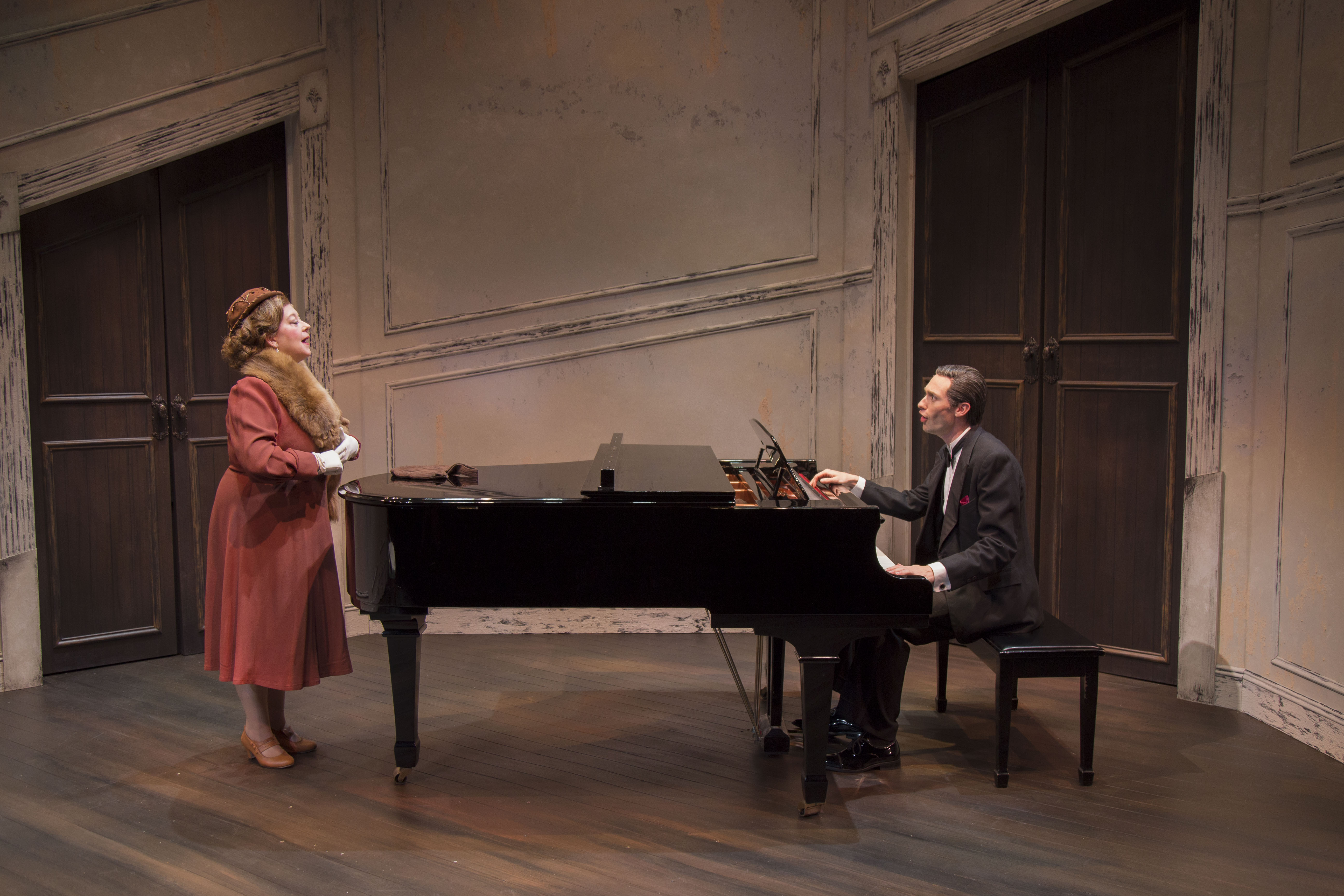 Photo by Katie Simmons-Barth 2019